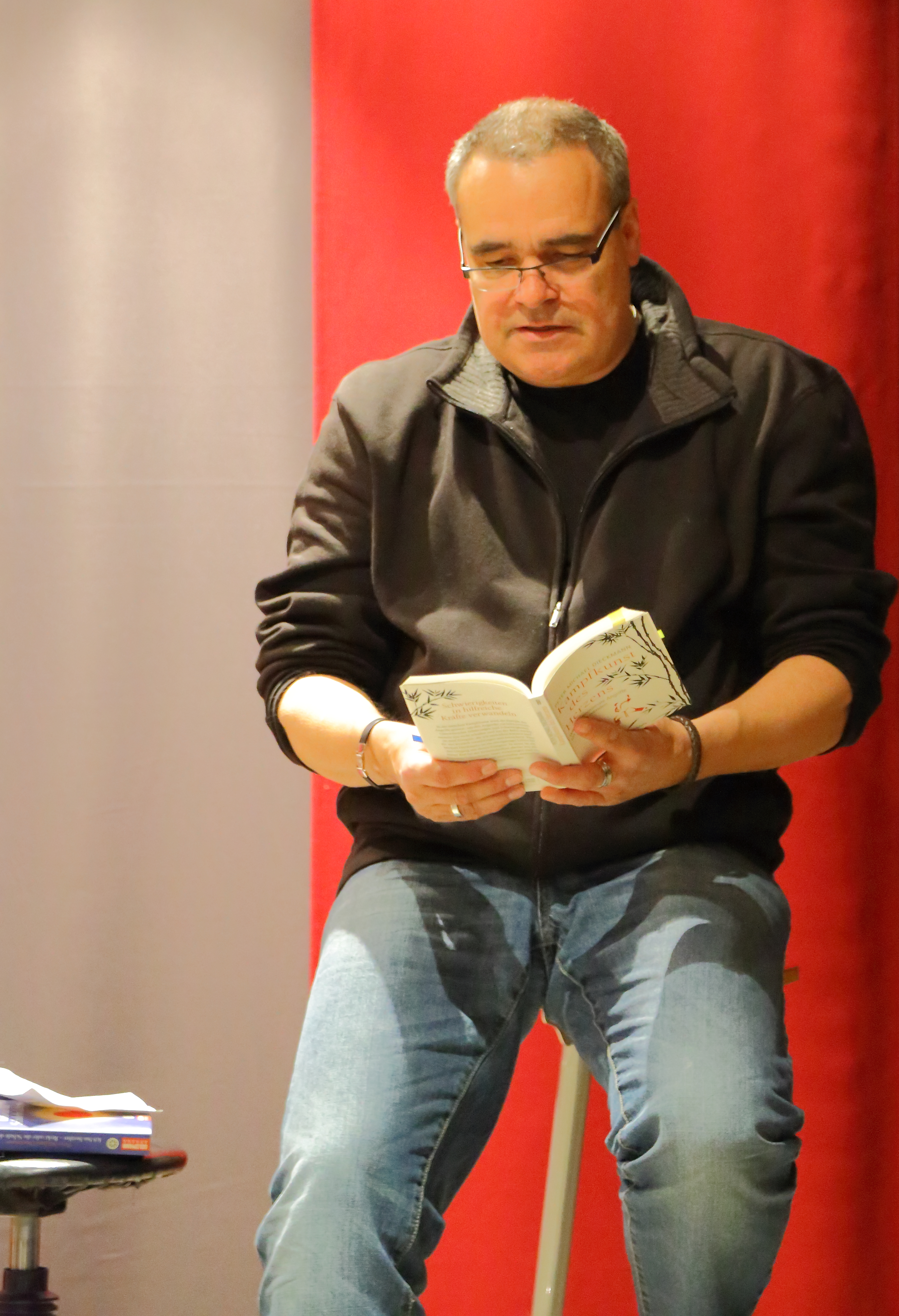 German police officer, Reiki teacher and author Peter Michael Dieckmann during a reading at the bookshop Volk (Buchhandlung Volk) in Recke, Kreis Steinfurt, North Rhine-Westphalia, Germany.